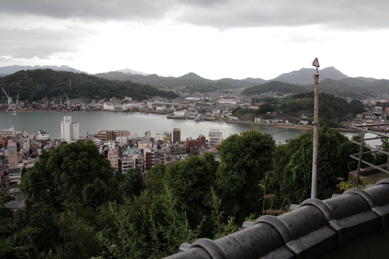 Photographed along the Path of Litterature (Onomichi, Japan)